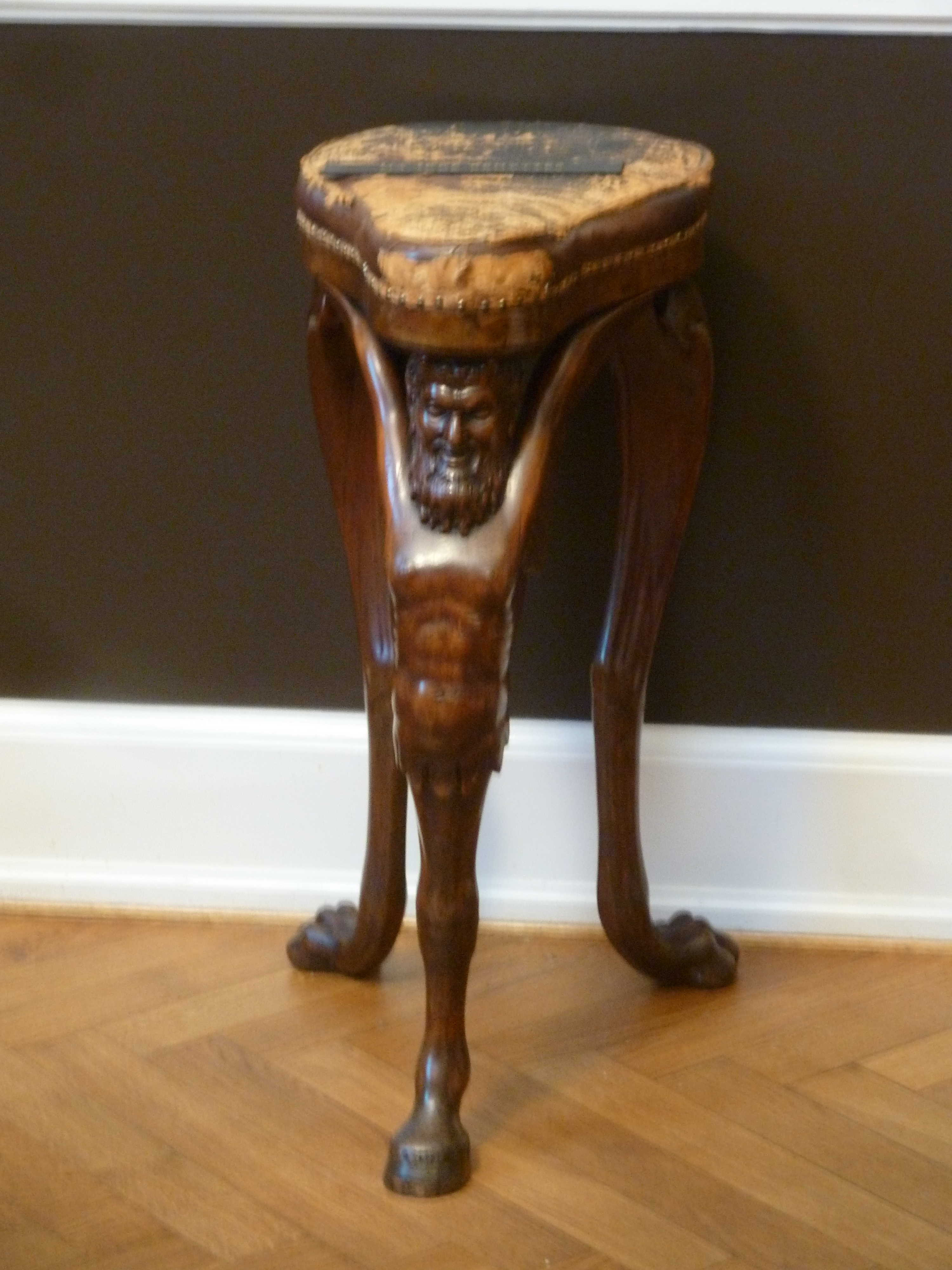 Furniture in the Hirschsprung Collection in Copenhagen, Denmark